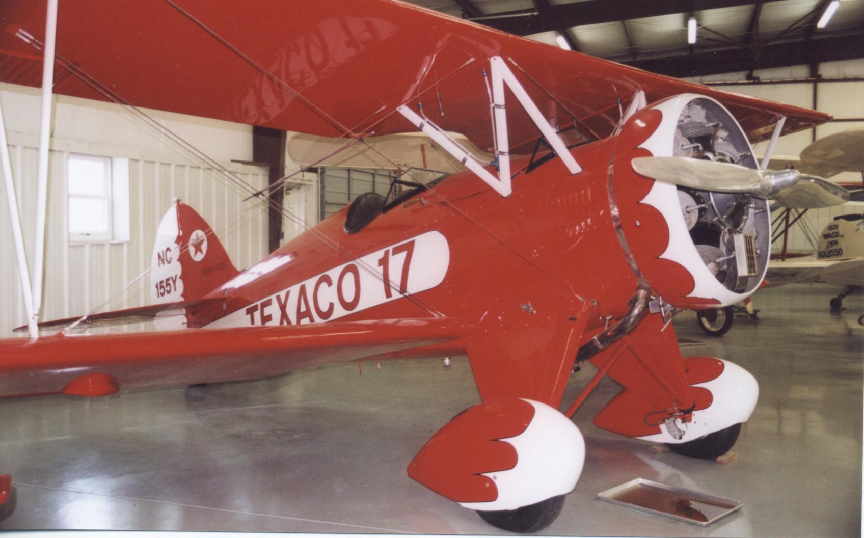 Waco UBF Biplane of 1932 used by Texaco, at the Historic Aircraft Restoration Museum, Dauster Field, St Louis